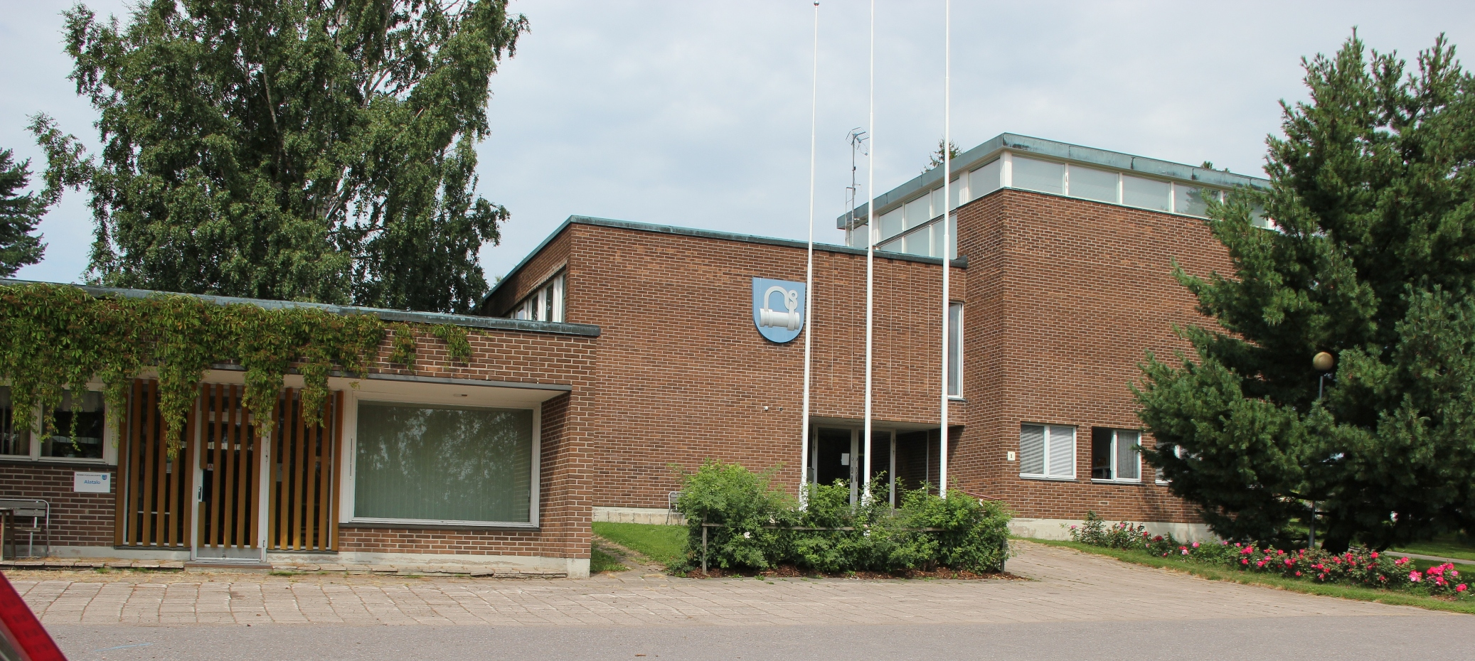 Municipal building in Nummi-Pusula, Finland